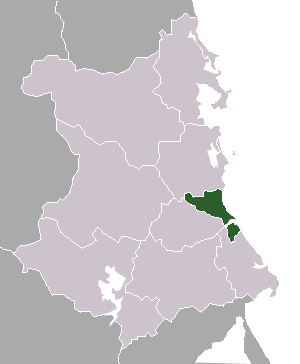 Location of Tuy Hoa City in Phu Yen Province